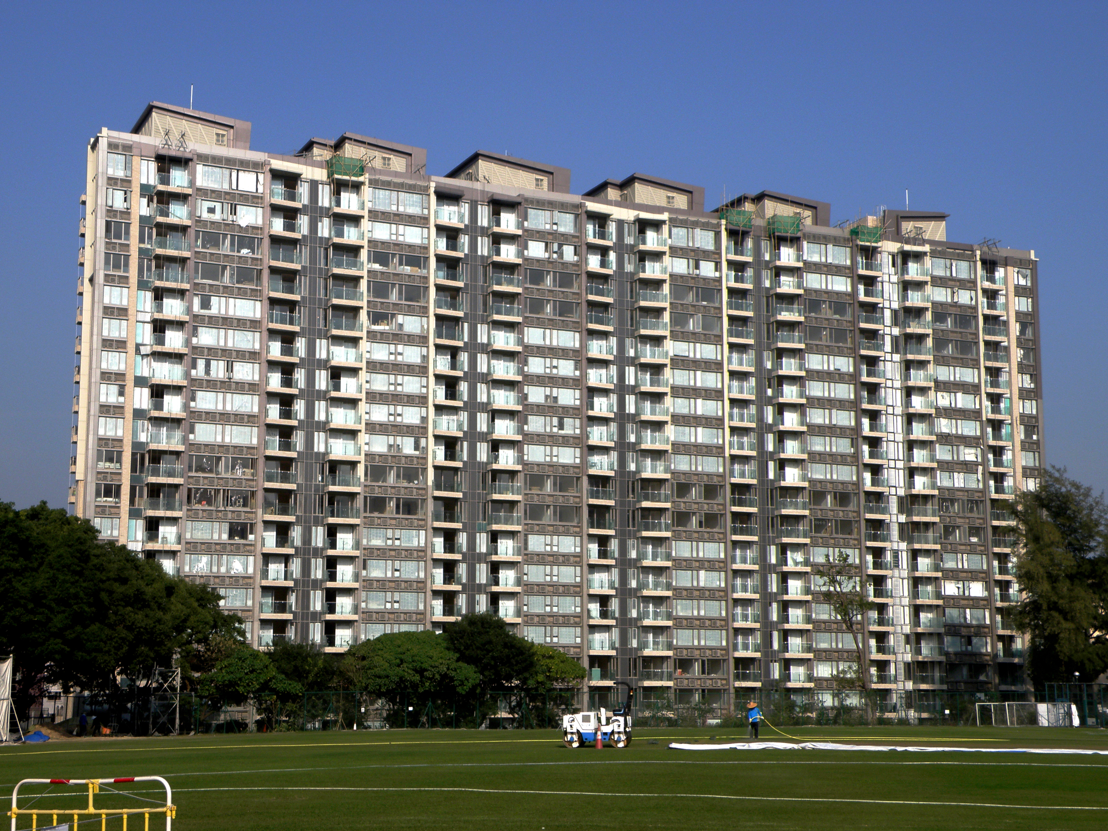 The Zumurud in Ma Tau Wai, Hong Kong.